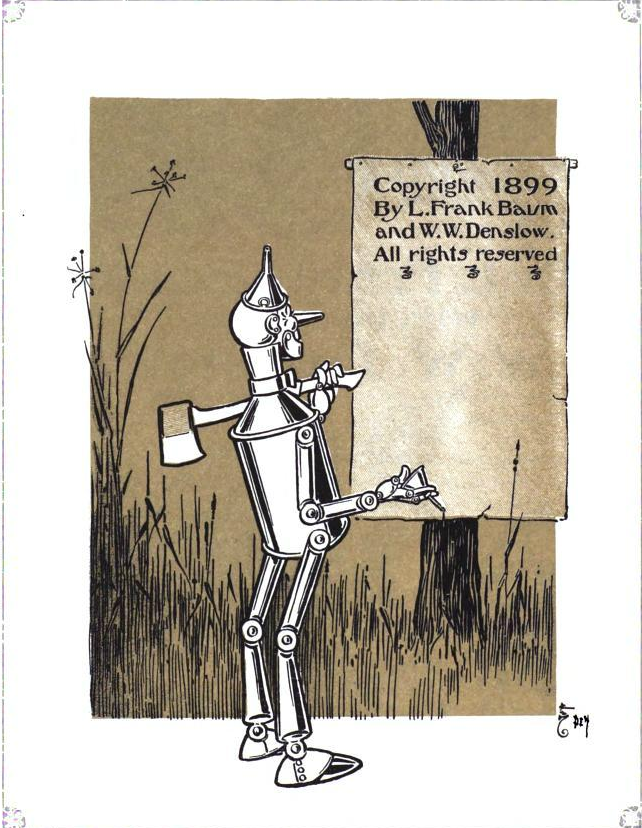 The Tin Woodman appears on the copyright page of the first edition of The Wonderful Wizard of Oz. The drawing reads "Copyright 1899/by L. Frank Baum and W. W. Denslow".